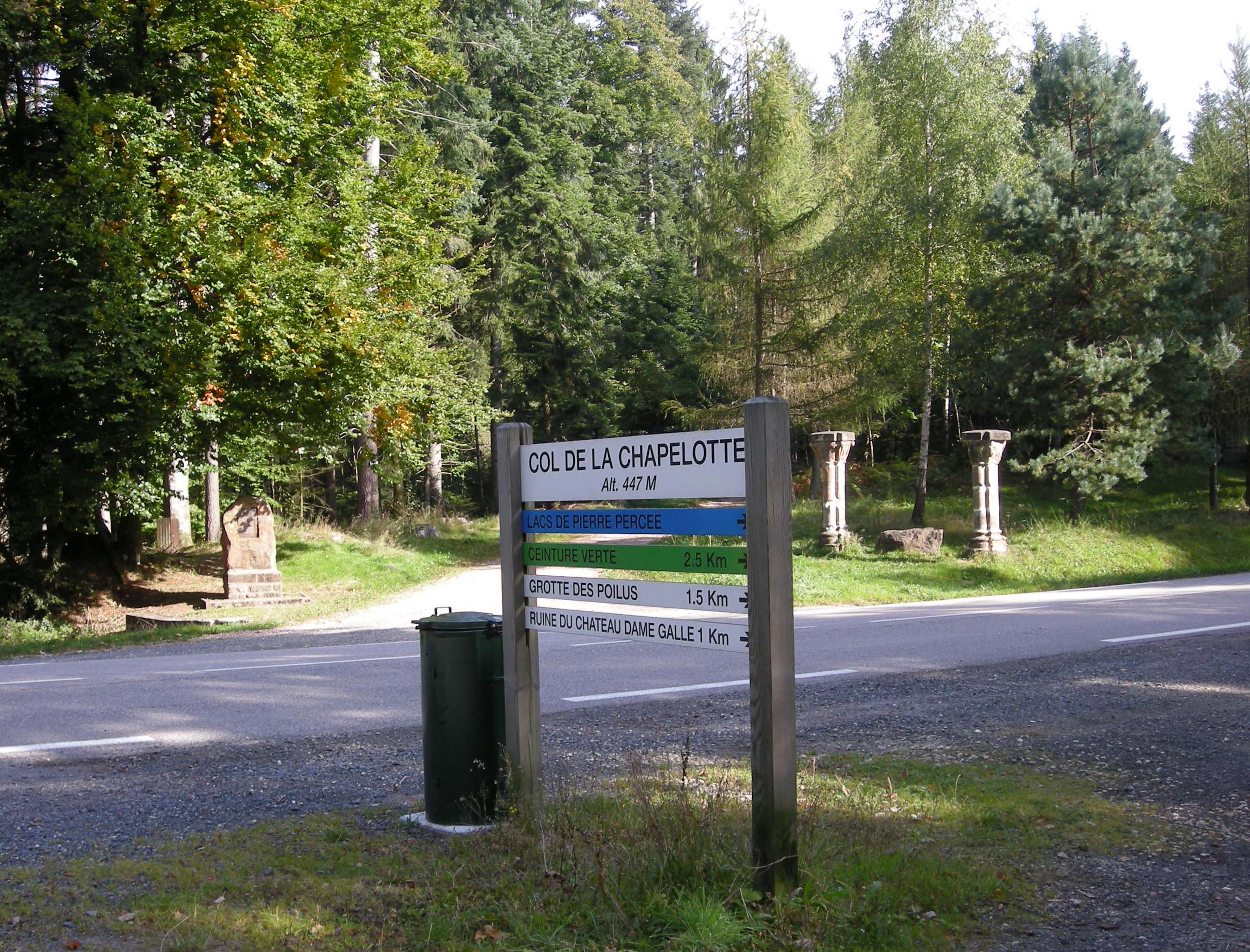 Col de la Chapelotte (mountain pass in Meurthe-et-Moselle)